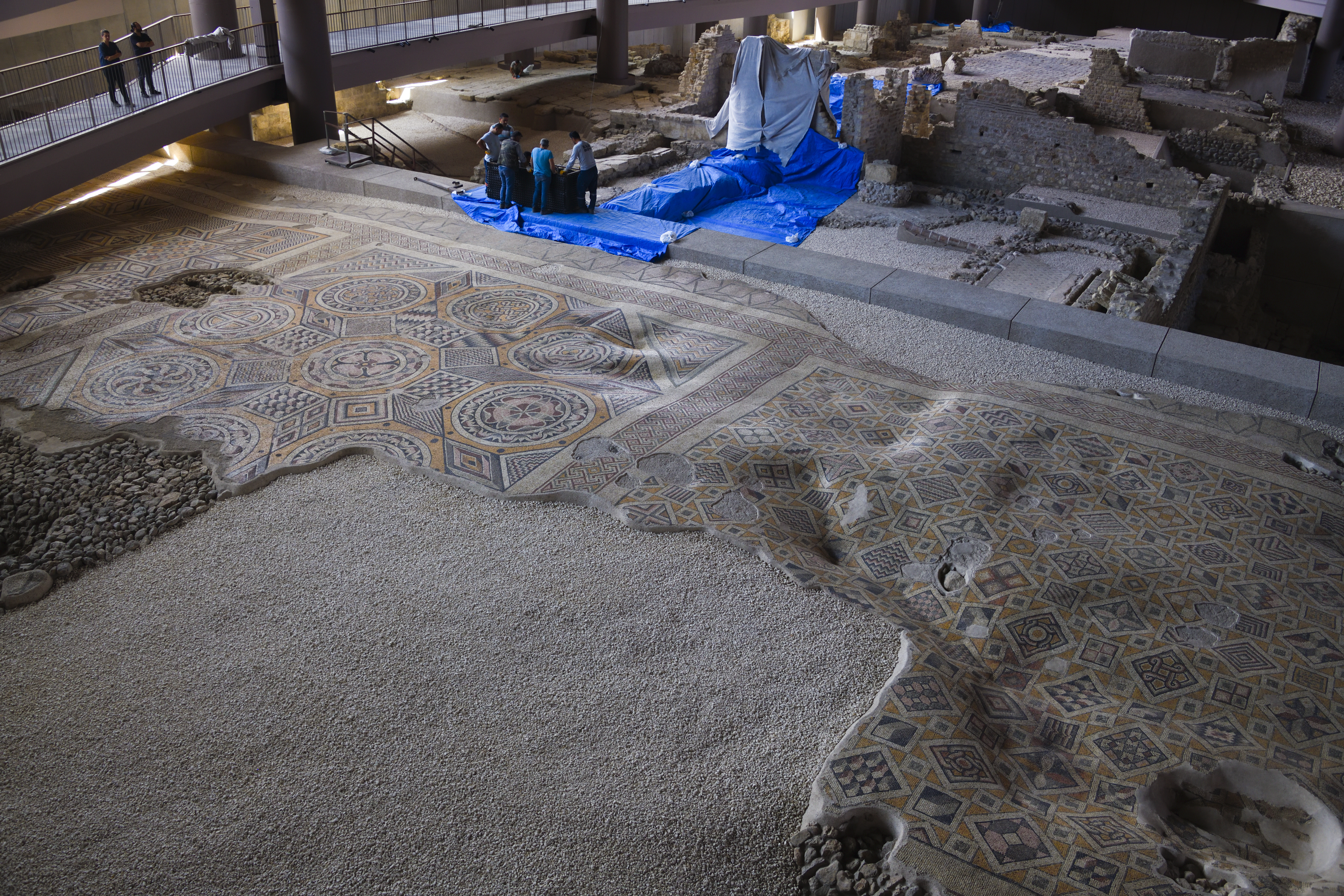 One of some pictures of, mainly geometric, mosaics that adorn large floor areas. Also shown the connecting structures, and the space in general. Some remains of buildings are in the area too. The region often suffers from earthquakes, as a result some of the floors have been distorted, showing wave patterns. In general the patters remain clearly visible.